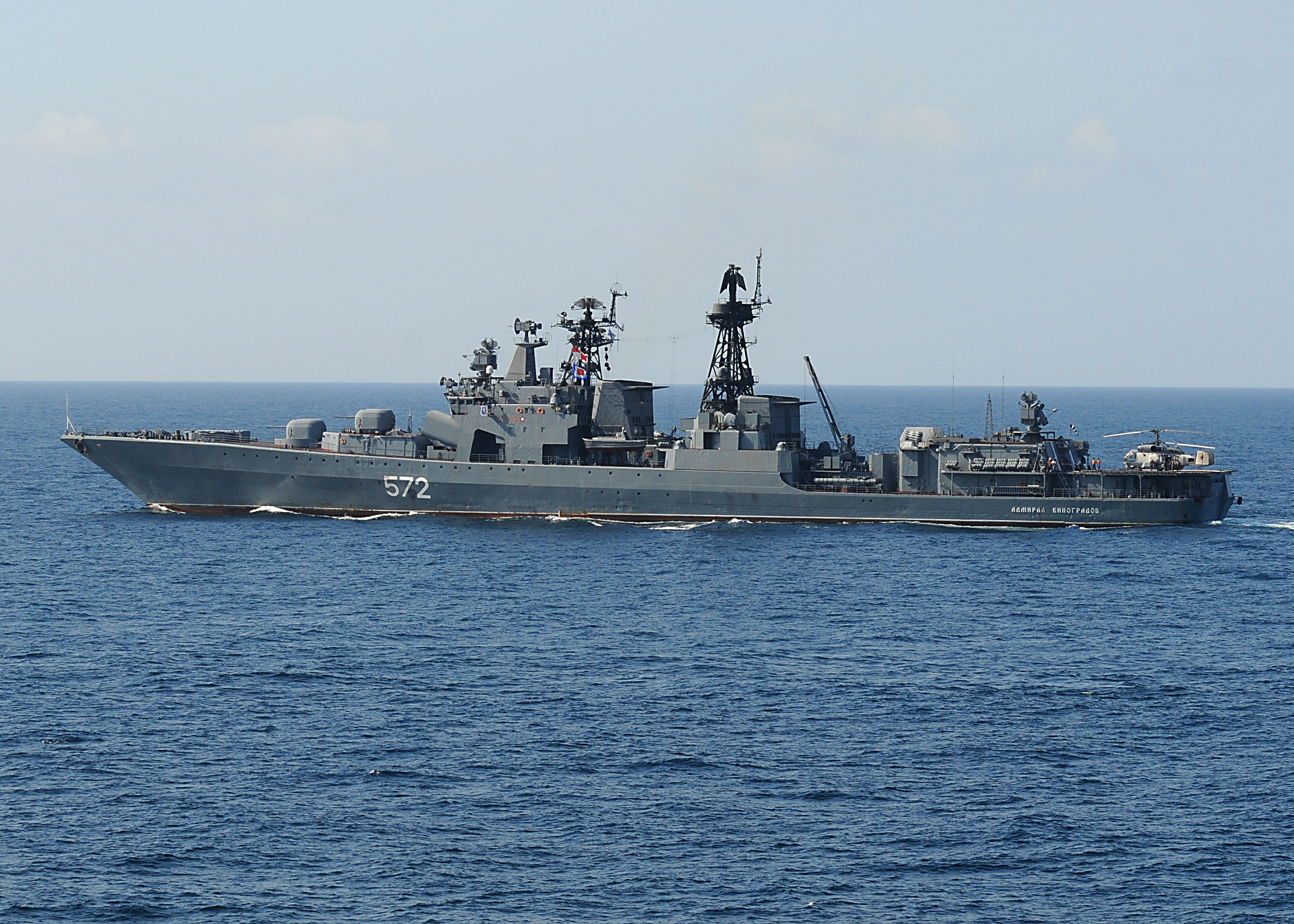 090209-N-1082Z-065 GULF OF ADEN (Feb. 9, 2009) The Russian destroyer Admiral Vinogradov (DDG 572) is underway near the guided-missile cruiser USS Vella Gulf (CG 72) while conducting operations in the Gulf of Aden. Vella Gulf is the flagship for Combined Task Force 151, a multi-national task force conducting counterpiracy operations to detect and deter piracy in and around the Gulf of Aden, Persian Gulf, Indian Ocean and Red Sea. (U.S. Navy photo by Mass Communications Specialist 2nd Class Jason R. Zalasky/Released)